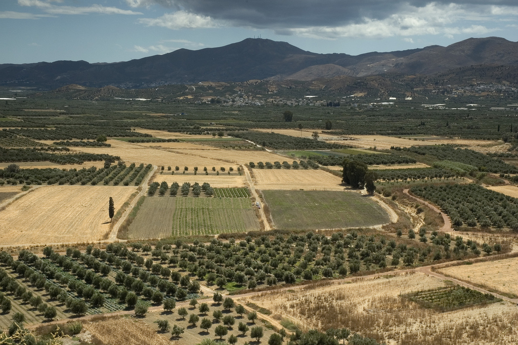 Festos - Valley of Messara